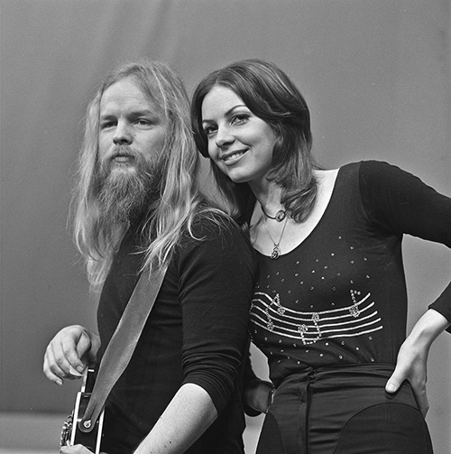 Jerney Kaagman and Chris Koerts (Earth & Fire) in AVRO's TopPop (Dutch television show) in 1973